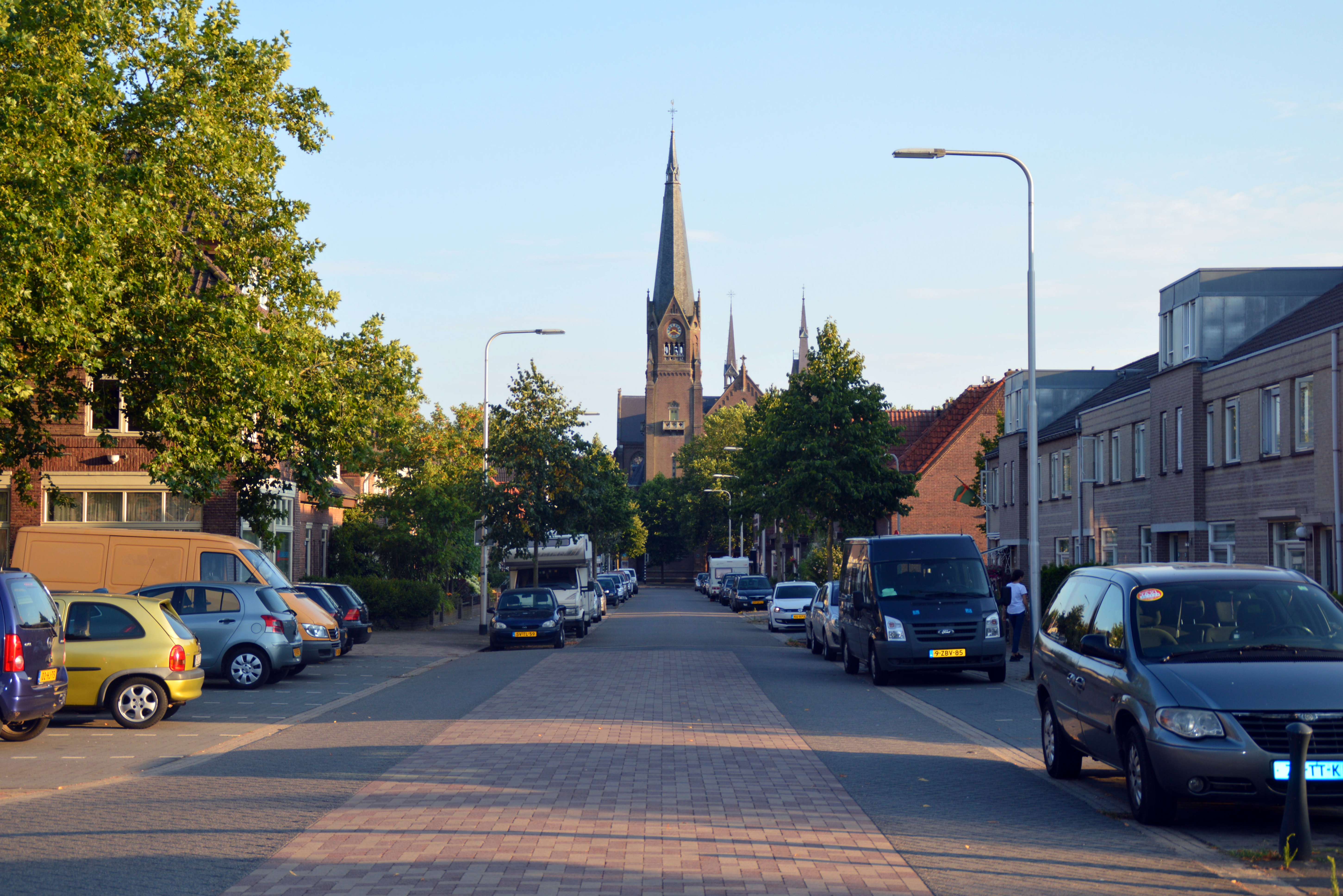 Willemsweg with view on the Groenestraat Church (Saint Anthony of Padua-Sint Anna Church) on the Groenestraat, Nije Veld, Nijmegen